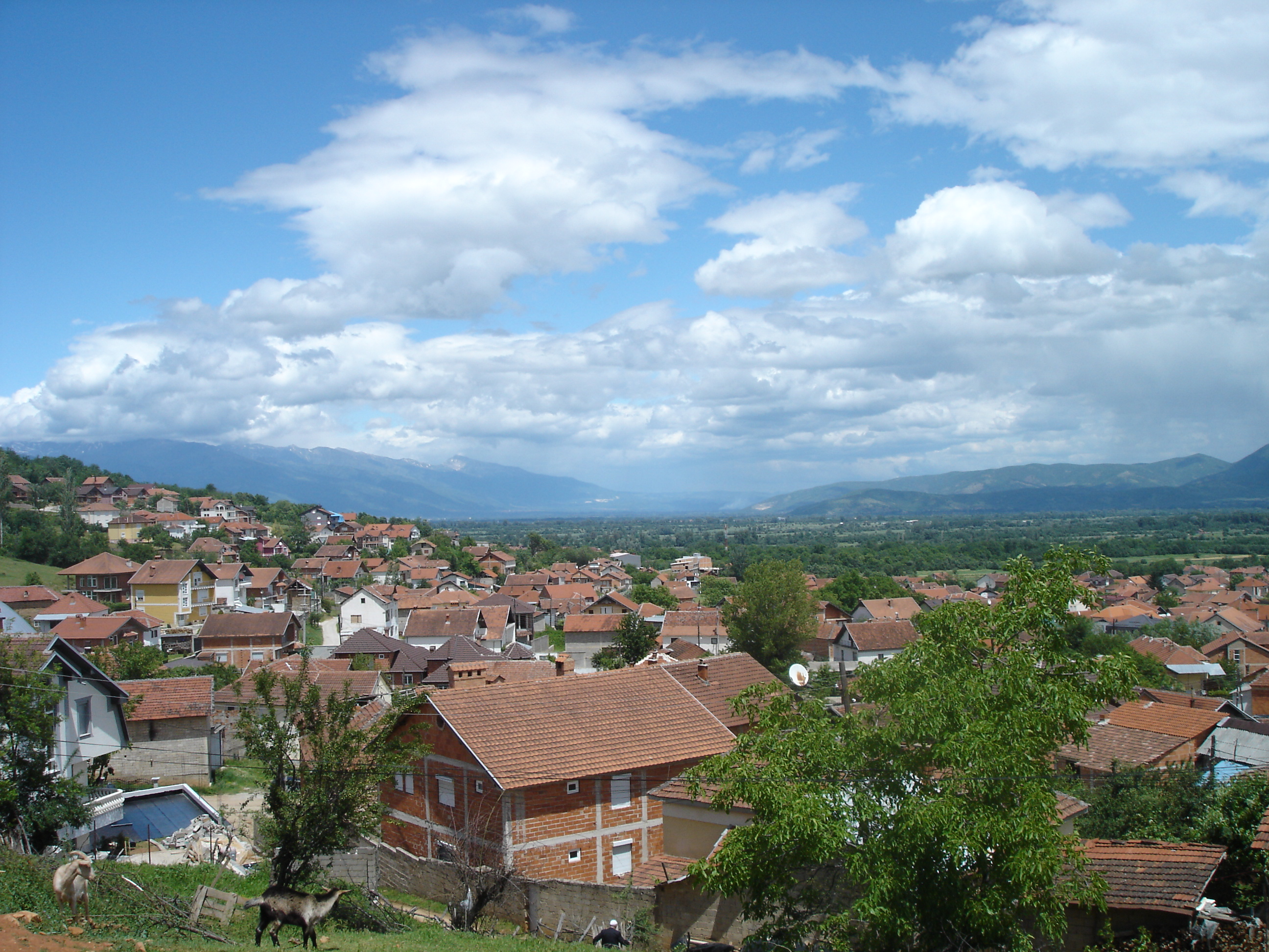 village of Debreshe, near Gostivar, Macedonia